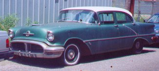 a 1956 Oldsmobile 88 sedan, still running in August, 2003, in downtown New Orleans. photo by Infrogmation. Previously uploaded to Wikipedia by me on 05:49, 24 September 2003 Related photo of same car taken same day: Image:OldsRocket88Side.jpg